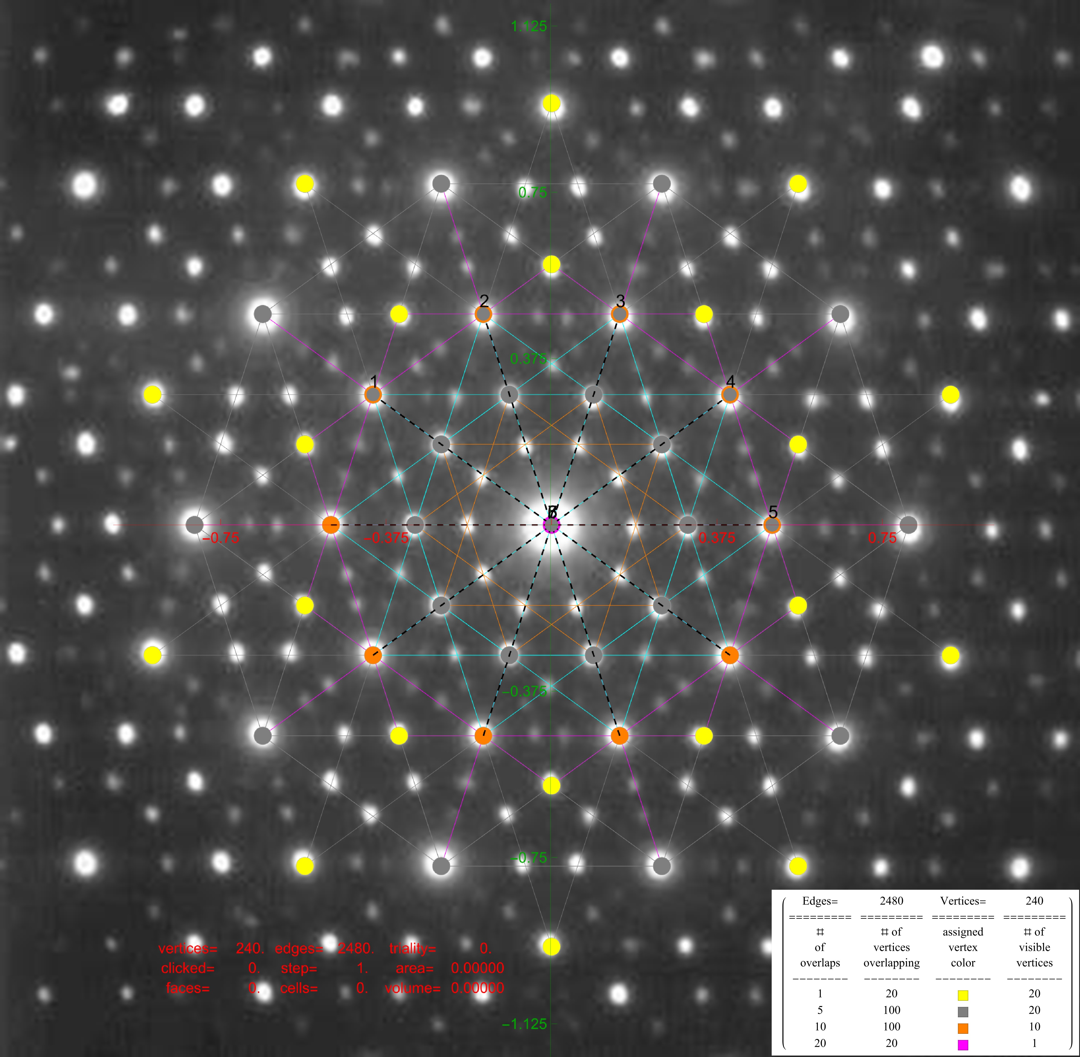 This is an image of the electron diffraction pattern of an icosahedral Zn-Mg-Ho QuasiCrystal with an overlay of a 5-Cube projection from the 240 vertices of the split real even E8 Lie Group. The basis vectors for the E8 projection are shown (1:1 with the ring of gray vertices with the last 3 of 8 dimensions 0). There are 2480 overlapping edge lines from the 240 E8 vertices. They have norm’d unit length calculated from the 5 non-zero projected dimensions of E8. Of these, 32 inner vertices and 80 edges belong to the 5D 5-Cube (Penteract) proper. Edges are shown with colors assigned based on origin vertex distance from the outer perimeter. The vertex colors of the 5-Cube projection represent E8 vertex overlaps. These are: InView vertices=(color{overlap,count},…)Total (LightGreen{1,20},Pink{5,20},Gray{10,10},Orange{20,1})51 All vertices=(color{overlap,count},…)Total (LightGreen{1,20},Pink{5,100},Gray{10,100},Orange{20,20})240